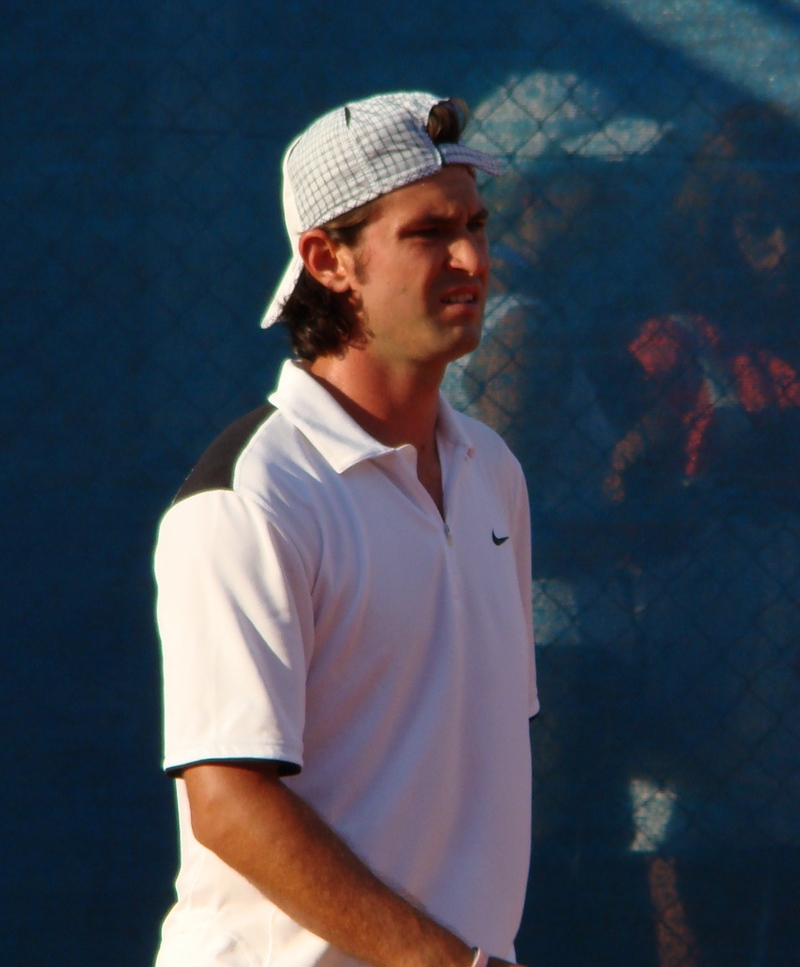 Boris Pašanski at Croatia Open Umag